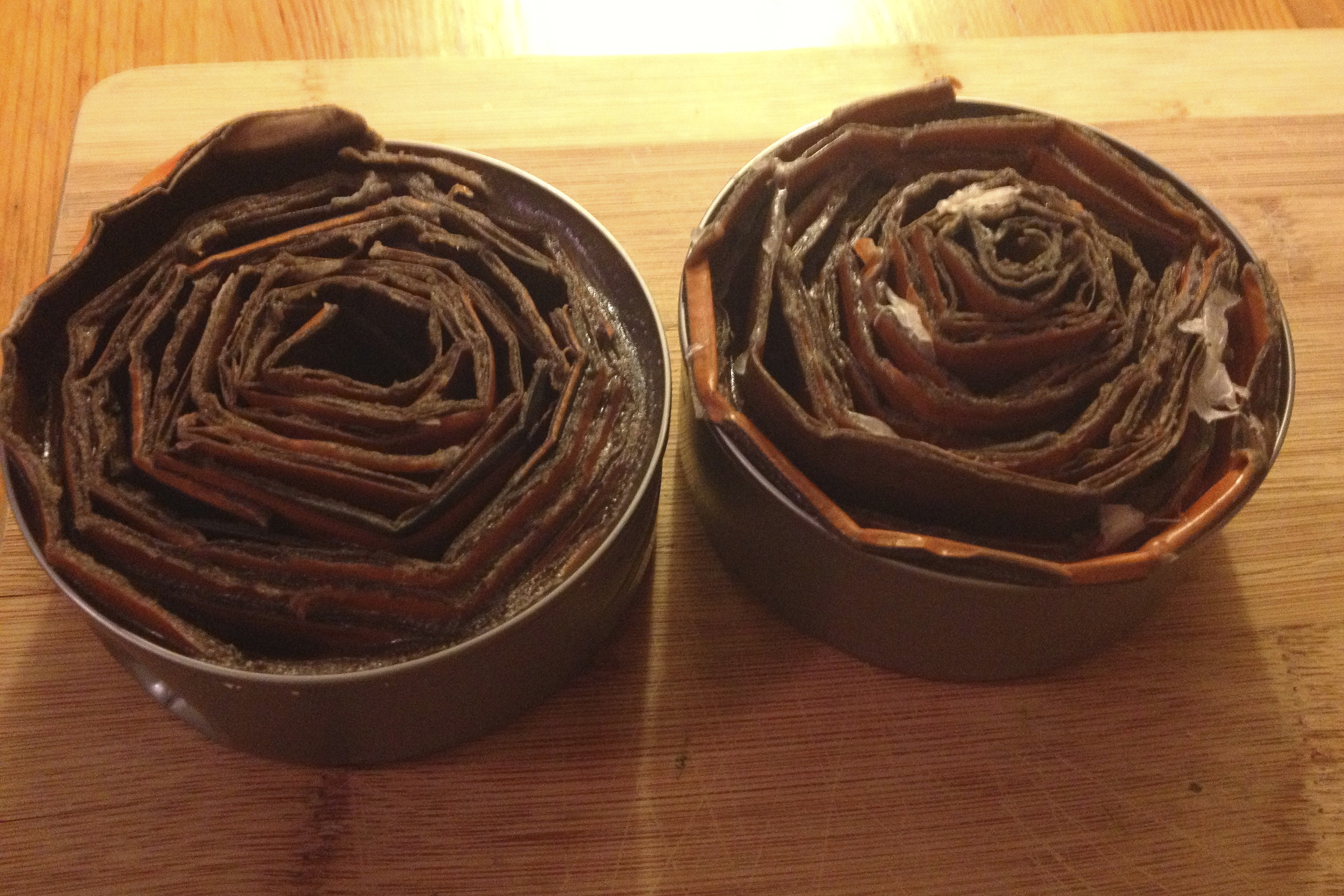 Photo of two Buddy Burners